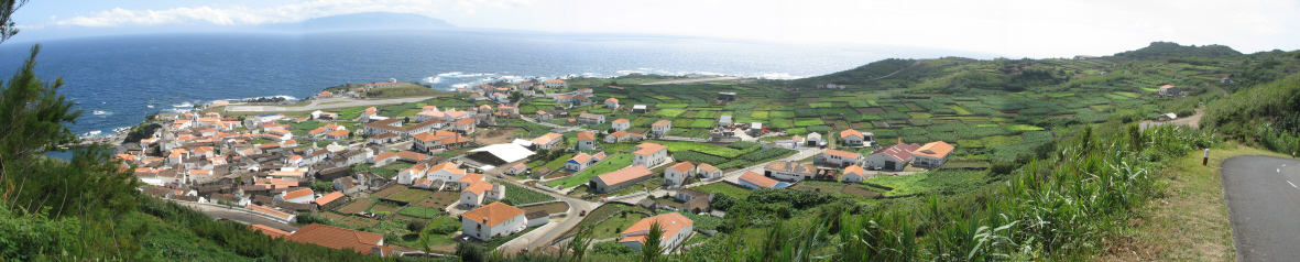 Vila do Corvo, the only sttlement in Corvo Island, Azores.